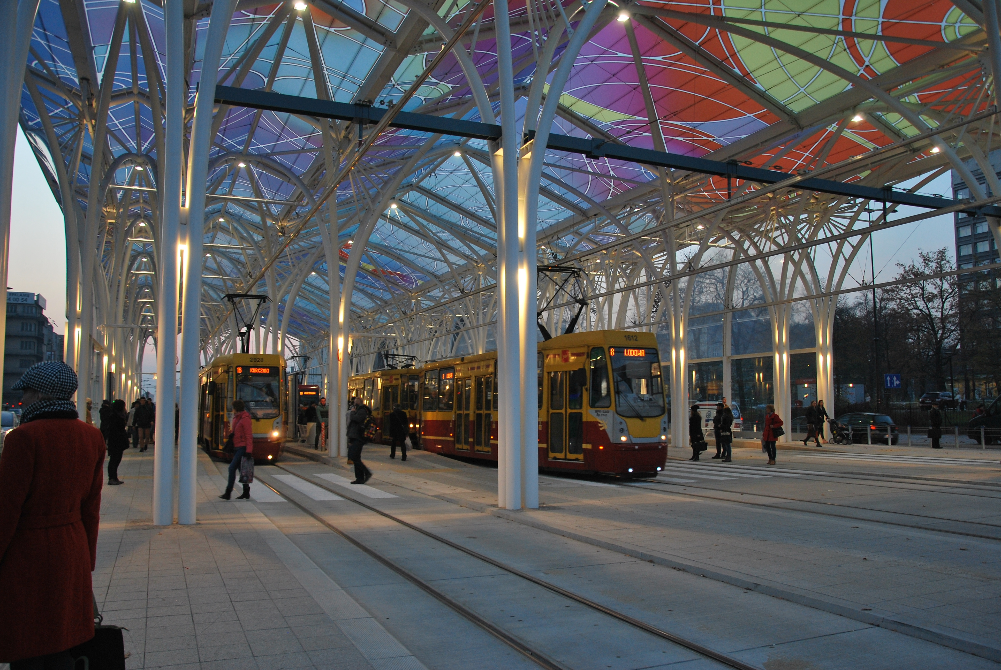 Transfer station Piotrkowska-Centrum, Łódź Piłsudskiego Av. November 2015